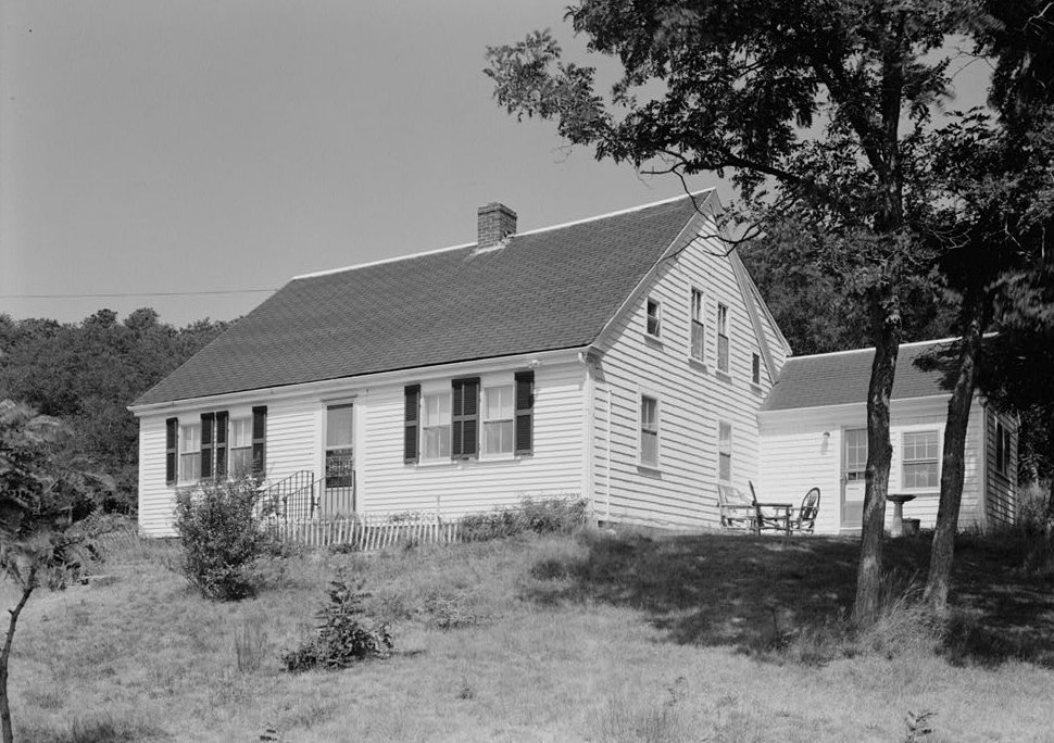 Jedediah Higgins House, North Truro, Massachusetts. A well-preserved early 19th century Cape style house.